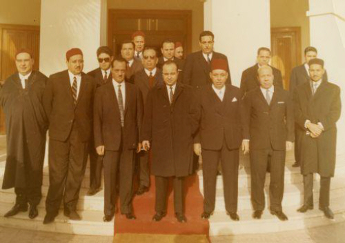 Al-Bakkoush cabinet. From the second on left: Ahmad Bishti, Salem El Qadi, Abdul Hamid al-Bakkoush, Ahmed Awn Sawf, Ahmed Salhin El Houni, Mustafa Bayo, and Behind them Bashir al-Muntasir (wearing black glasses)